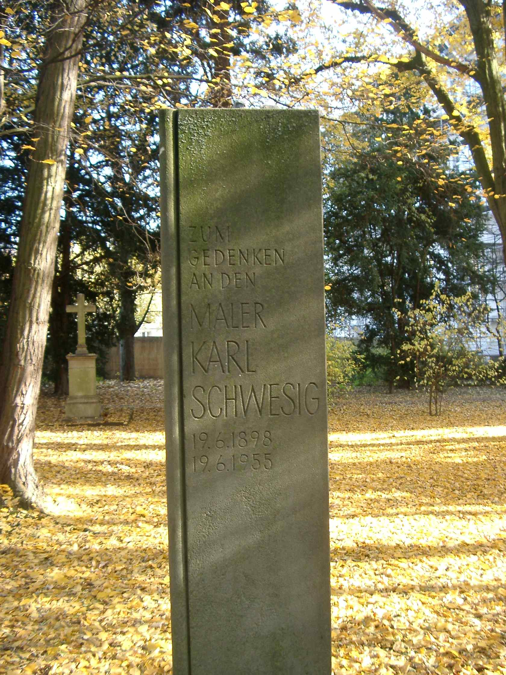 Memorial 4 Painters. Germany, Düsseldorf-Golzheim.